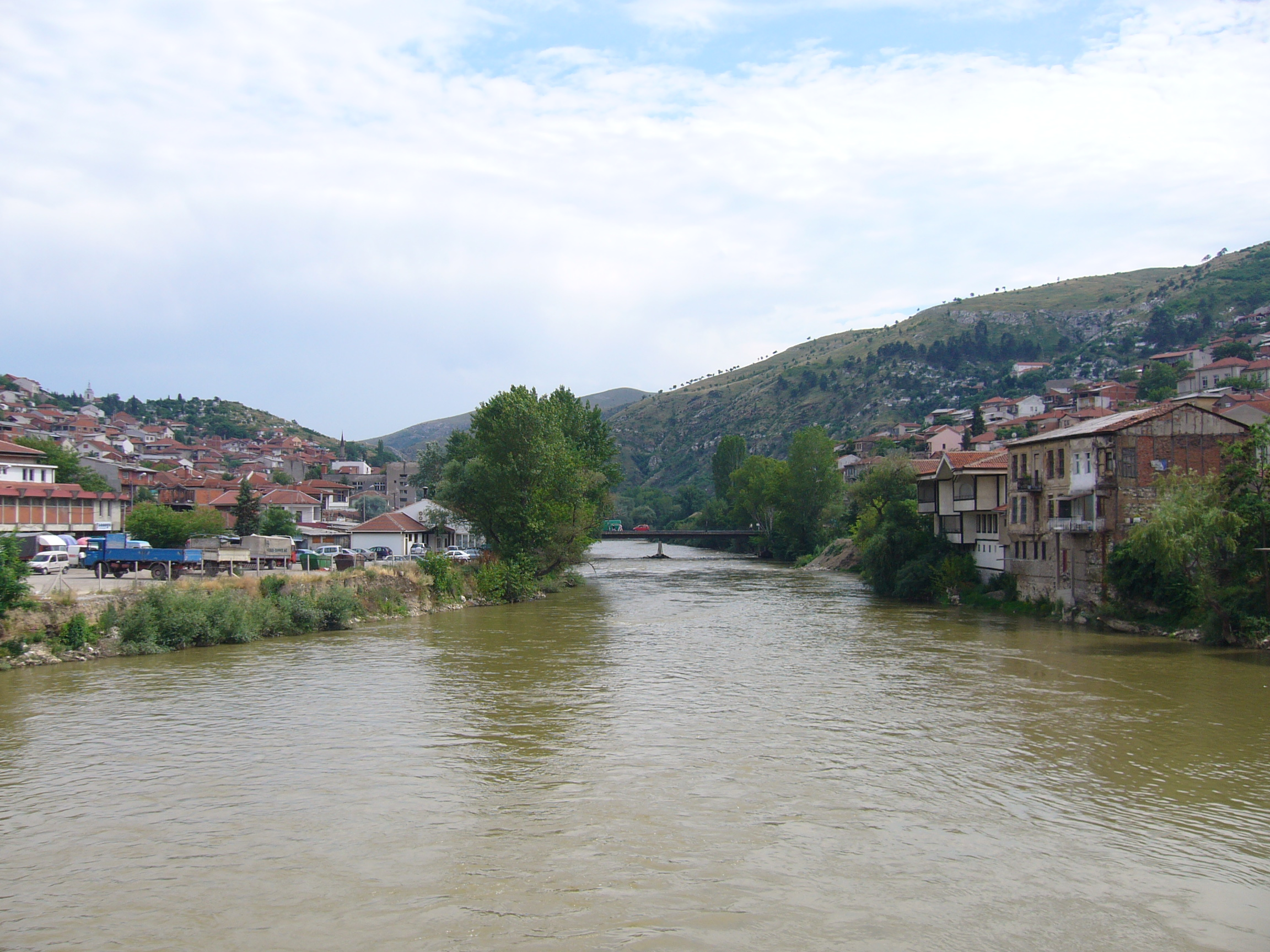 Vardar river in the city of Veles, Republic of Macedonia